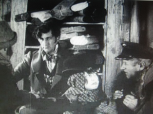 Film still of The Overcoat (1926 film)